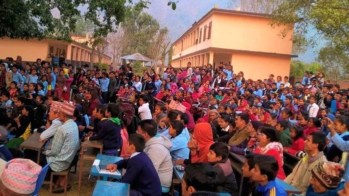 Local People gathered to see the 57th School Anniversary Celebration on Poush 27.